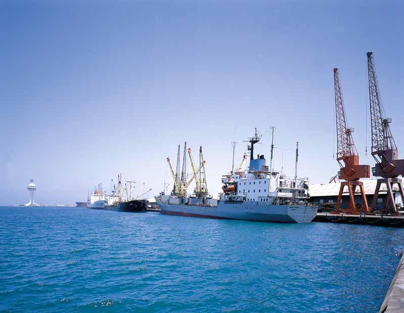 jeddah Seaport - self made picture :) Ammarov 00:29, 24 June 2006 (UTC)